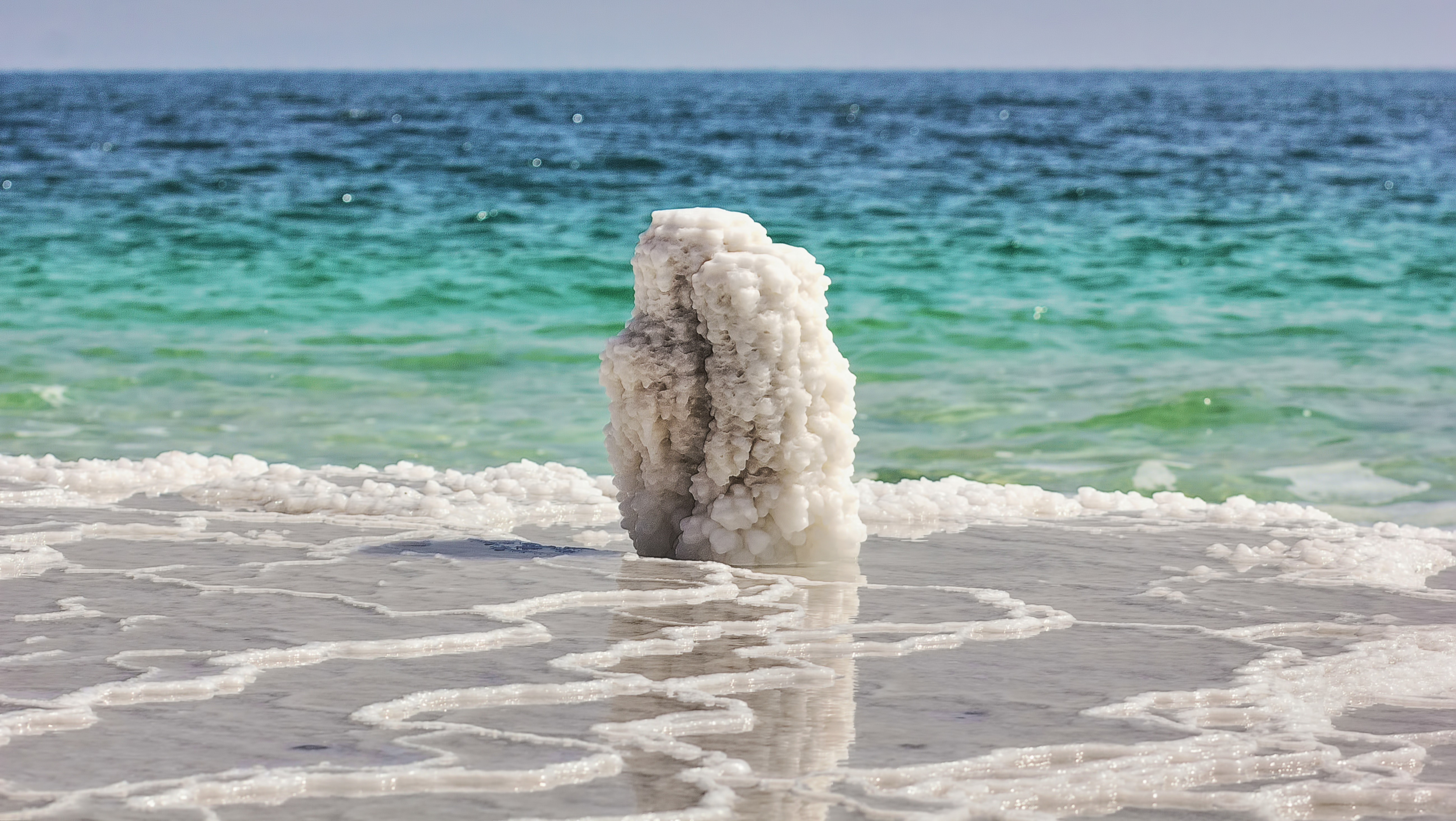 Salt pillar at the Dead Sea, Israel